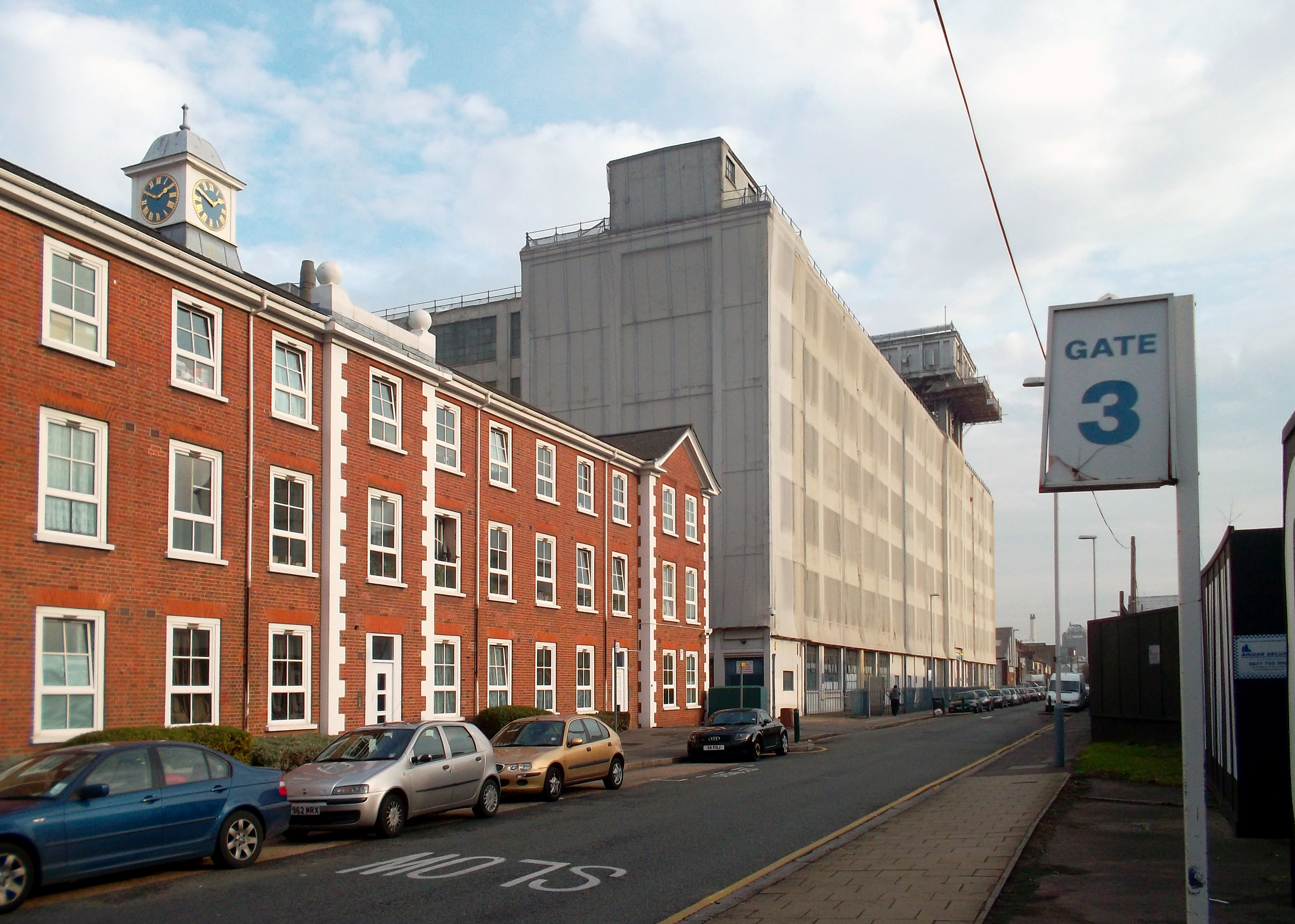 Gate 3, Blyth Road, Hayes